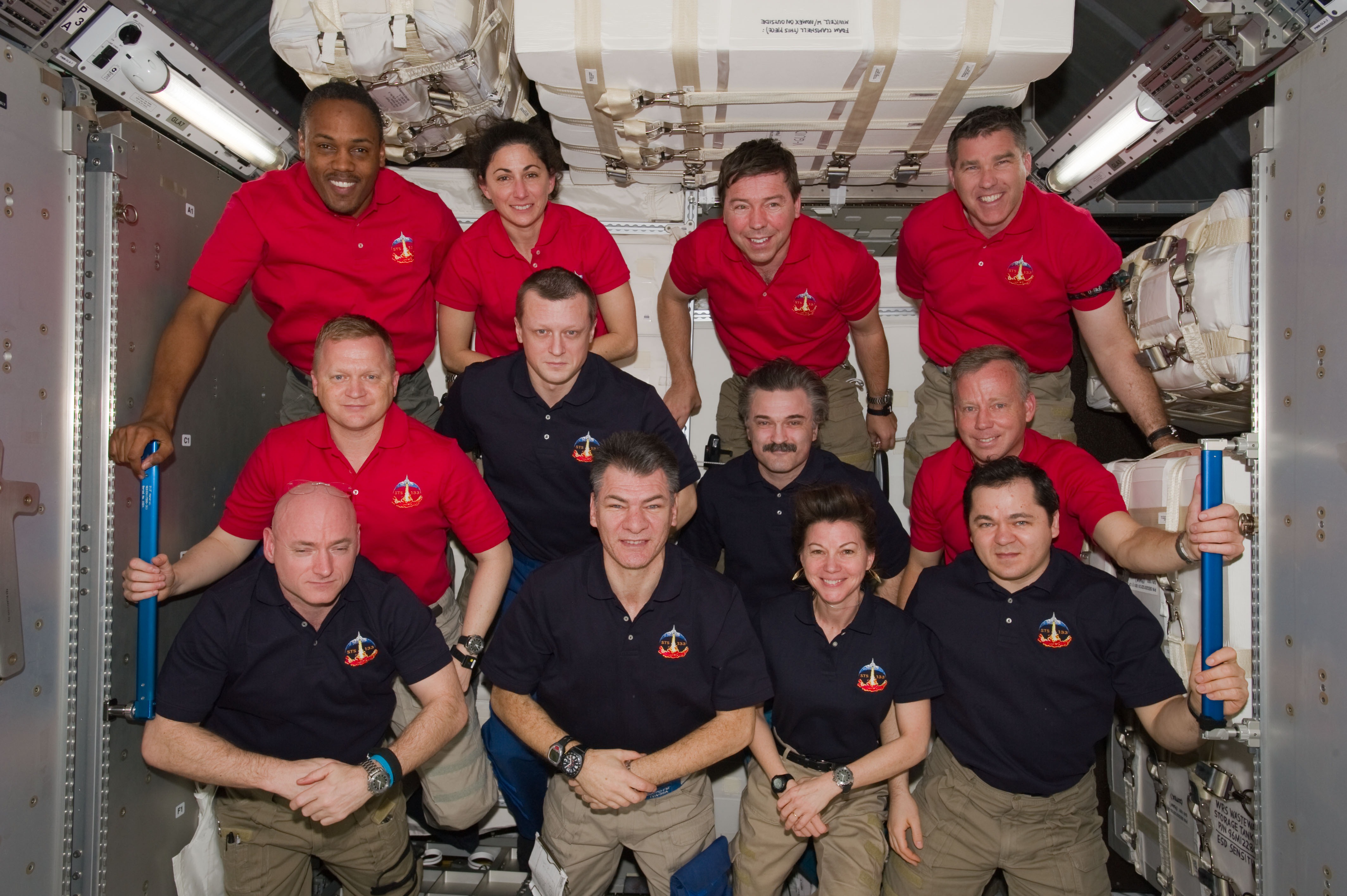 Twelve astronauts and cosmonauts take a break from a very busy week aboard the International Space Station to pose for a joint STS-133/Expedition 26 group portrait in the newly installed Permanent Multipurpose Module. The STS-133 crew members, all attired in red shirts (from left) are NASA astronauts Alvin Drew, Eric Boe (below), Nicole Stott, Michael Barratt, Steve Bowen and Steve Lindsay (below). The dark blue-attired Expedition 26 crew members, from bottom left, are NASA astronaut Scott Kelly, European Space Agency astronaut Paolo Nespoli, NASA astronaut Cady Coleman along with Russian cosmonaut Oleg Skripochka. In the center of the photo are Dmitry Kondratyev and Alexander Y. Kaleri. Serving the STS-133 and Expedition 26 missions as commanders were Lindsay and Kelly, respectively.